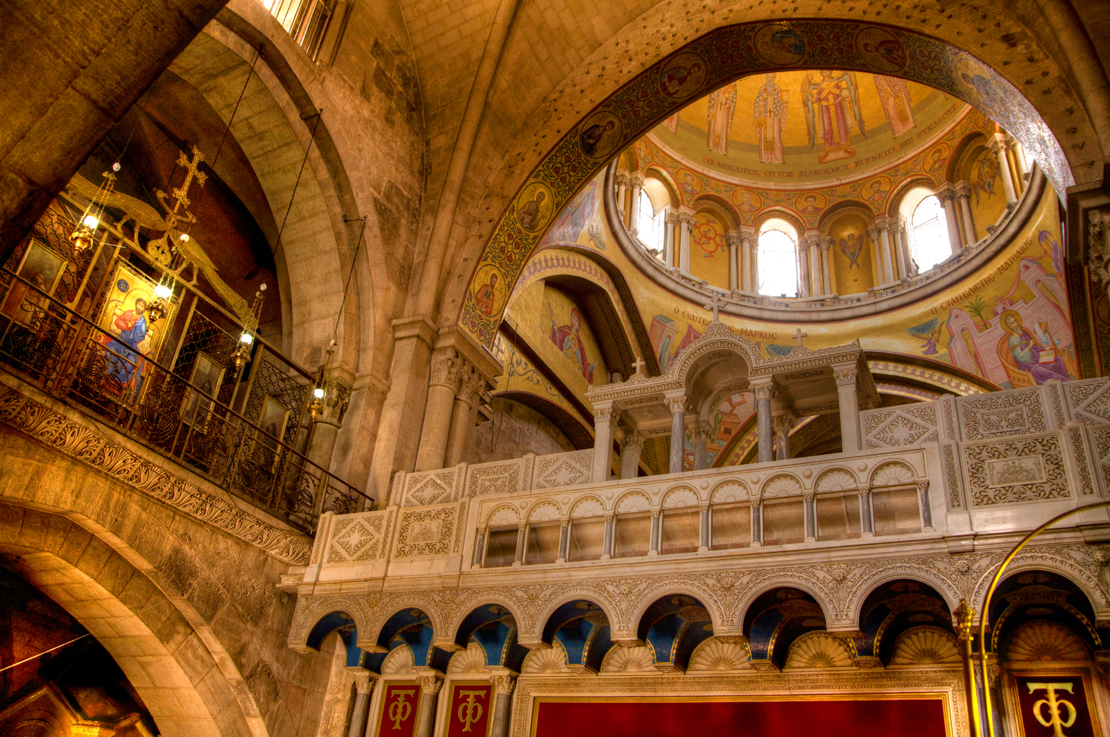 Church of the Holy Sepulchre